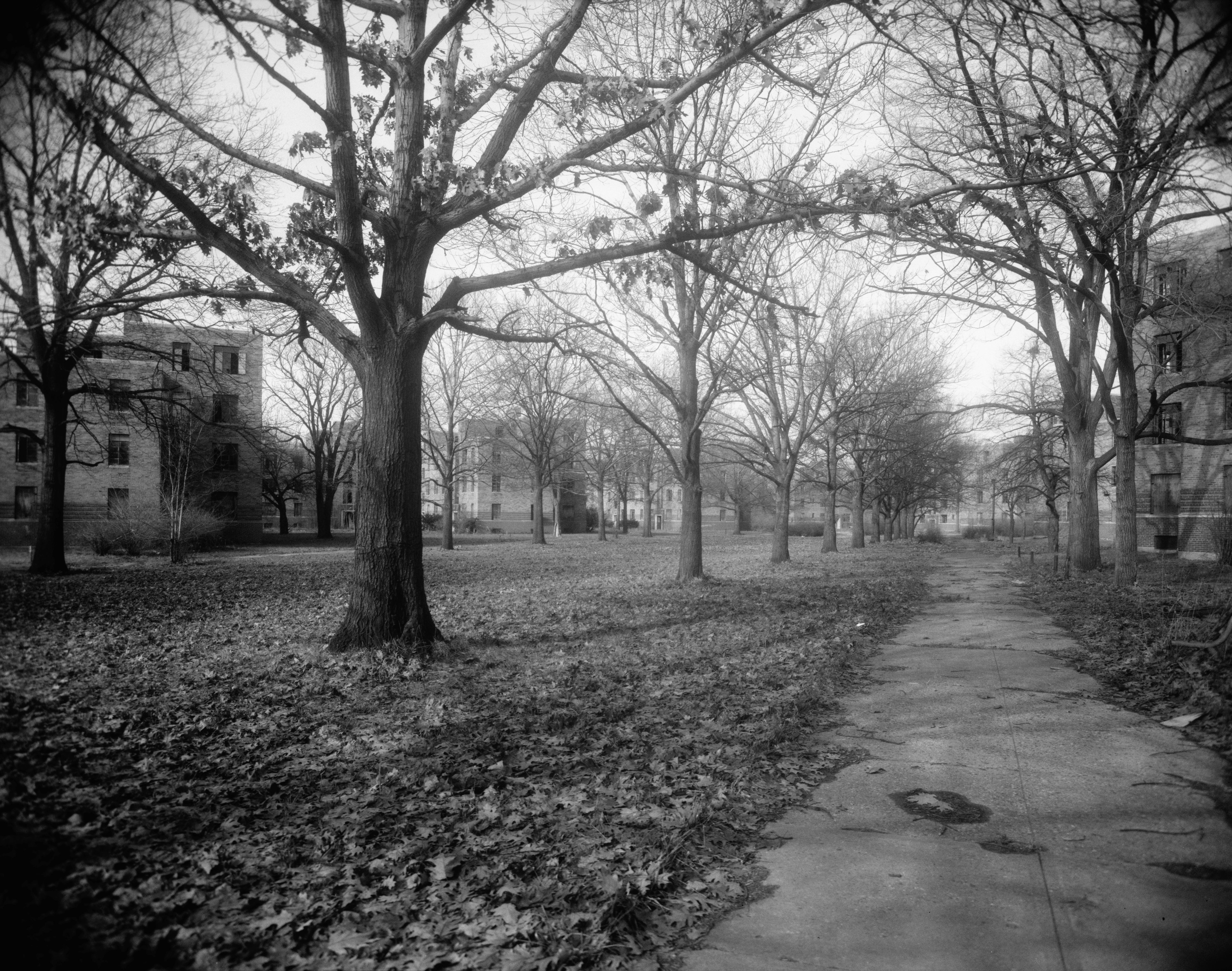 Central mall of the Lockefield Garden Apartments, a public housing project in Indianapolis, Indiana, USA. View looking northwest, with apartments visible on both sides.